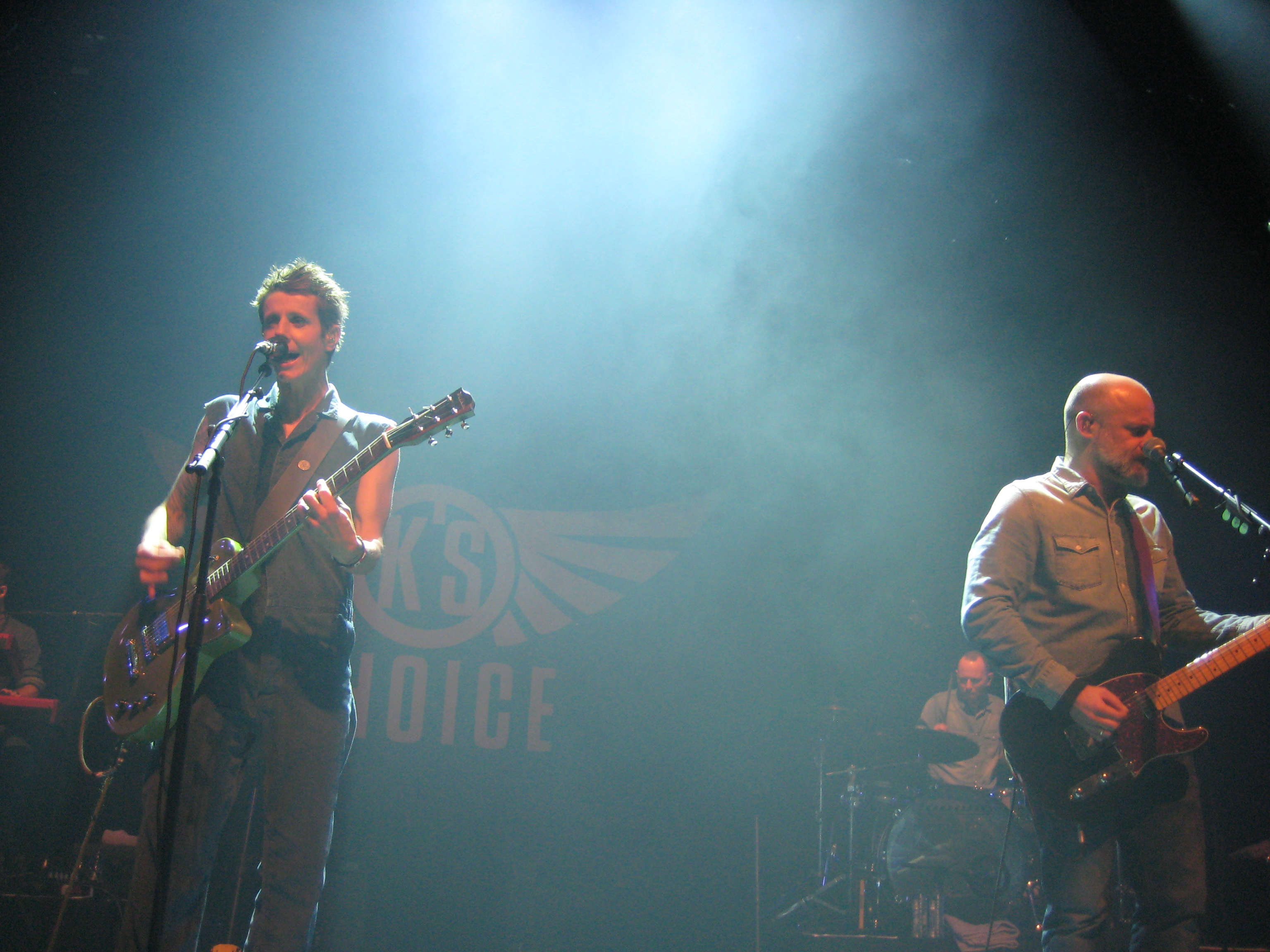 Gert and Sarah Bettens of K's Choice